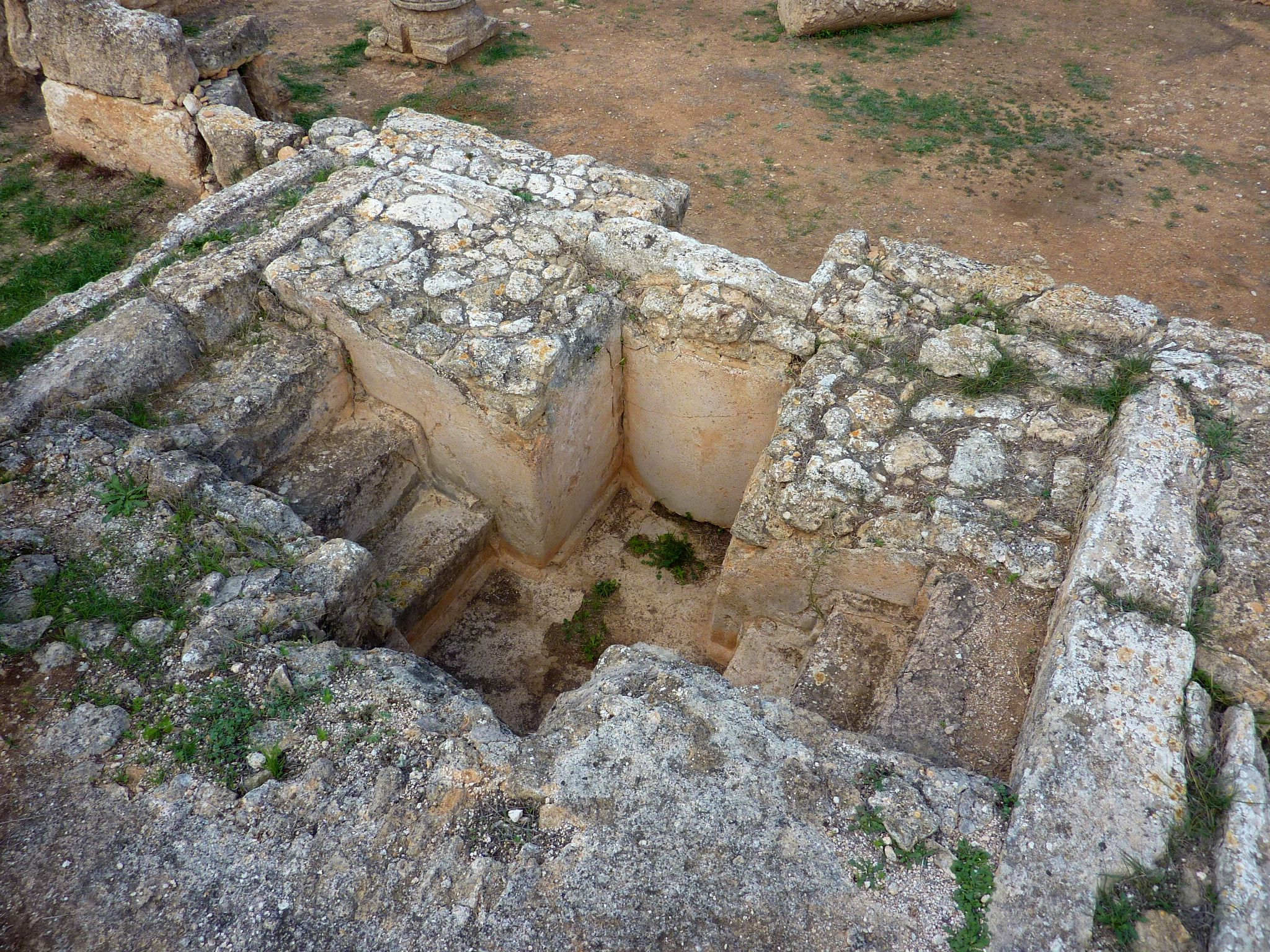 Agia Trias (Sipahi)